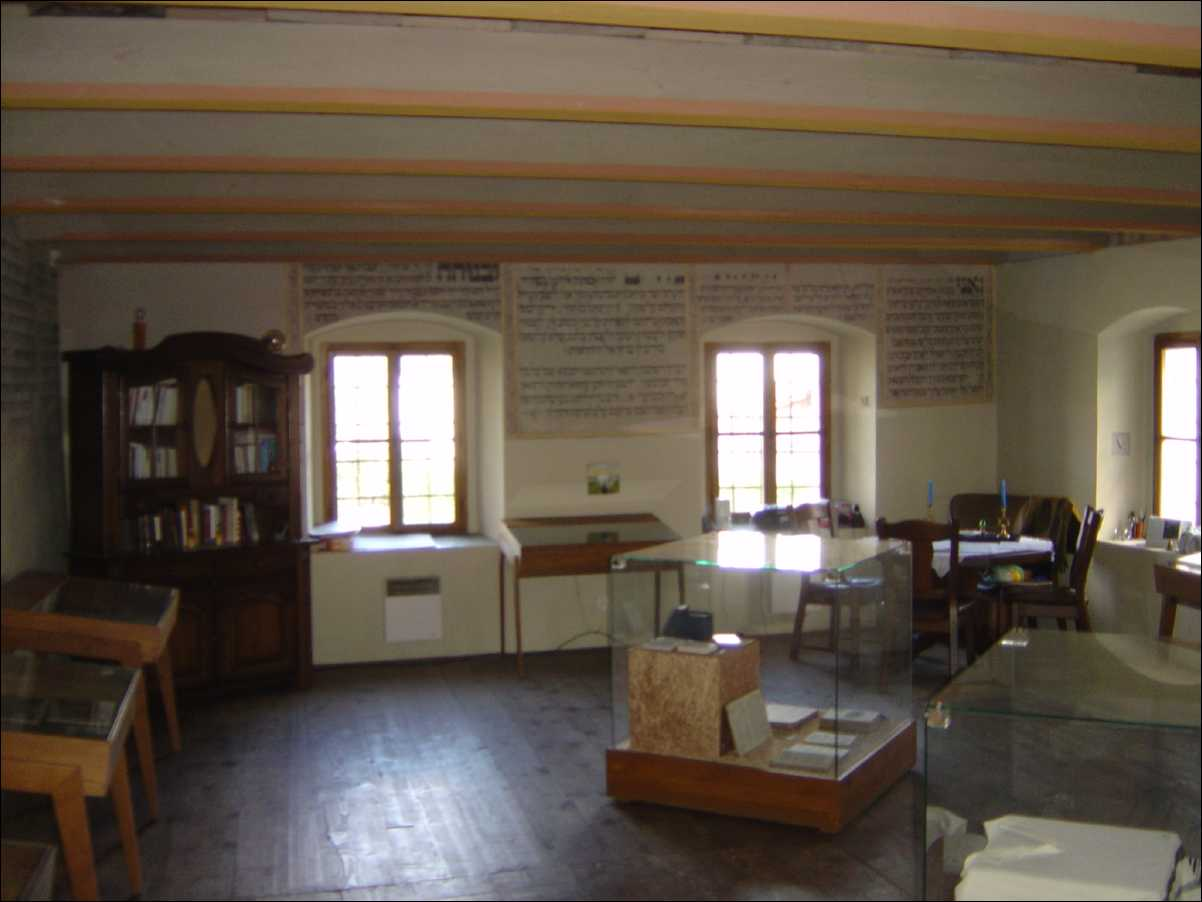 Shah Synagogue in Holešov